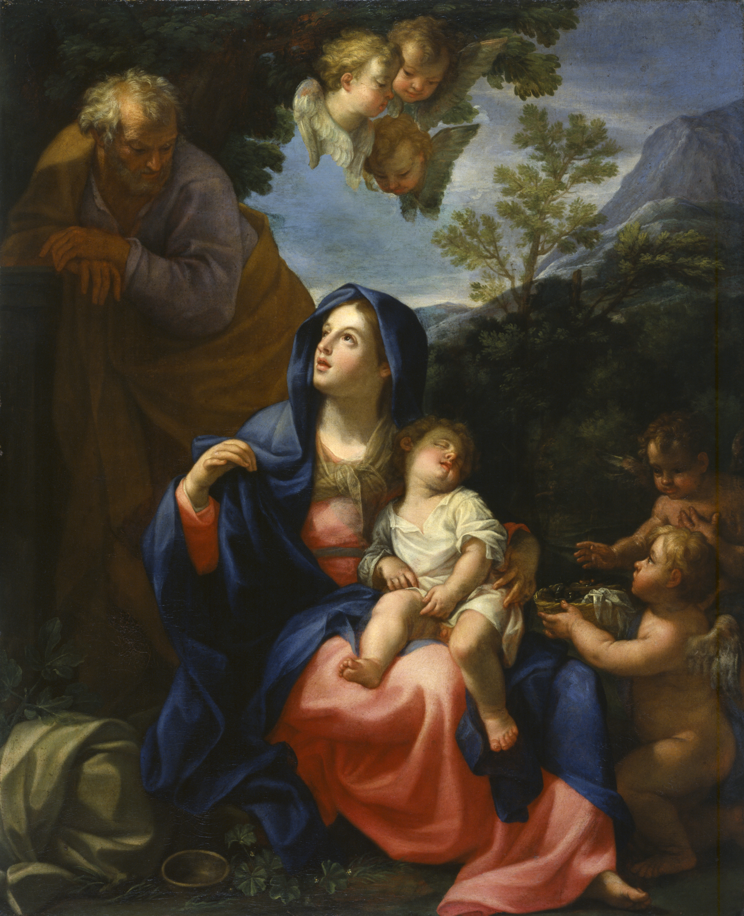 To escape Herod's persecution, Mary and Joseph fled with Jesus to Egypt. The subject of the rest on the flight to Egypt was developed in late medieval art and is not described in the New Testament. In this painting, the Holy Family rests in the shade of a tree. The Christ Child sleeps in the lap of the Virgin Mary, which prefigures her mourning of the dead Christ (the "Pietà"). Raphael was greatly admired during the 18th century for the sweetness of his figures, and Odazzi's style is influenced by that of the Renaissance master.